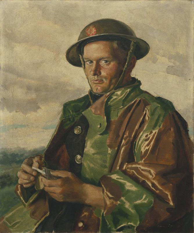 A half-length portrait of a Canadian Fireman wearing helmet and uniform with a camouflaged rain jacket.In his hands he is holding a packet of cigerettes.